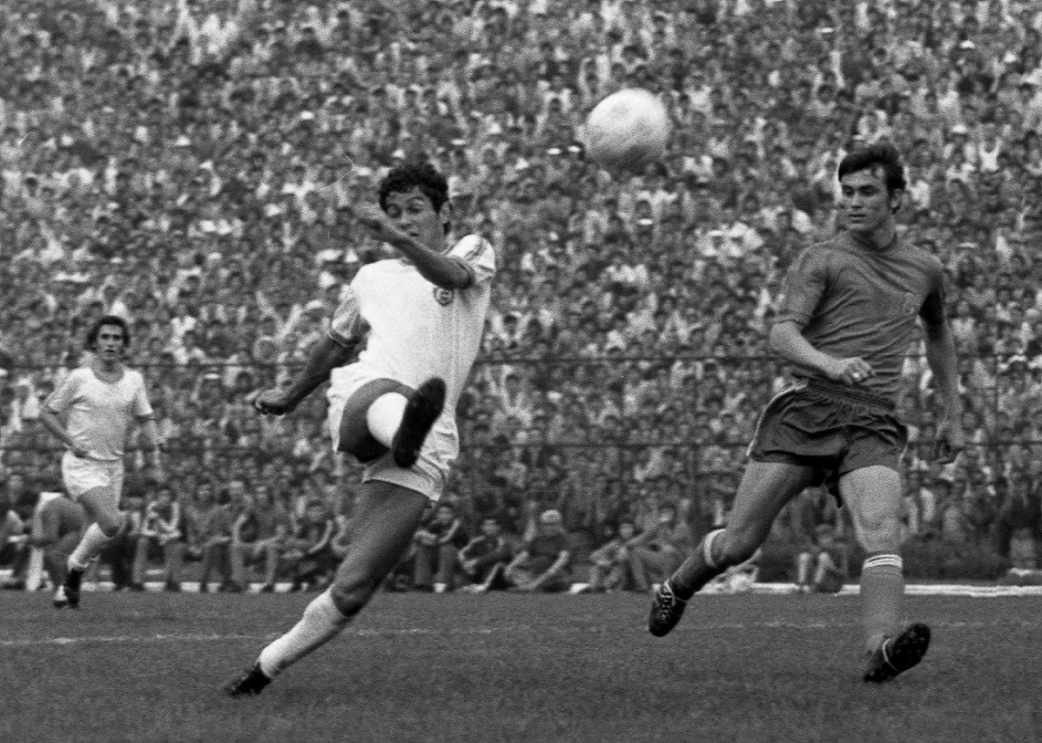 Mircea Lucescu in a derby match against Steaua Bucharest